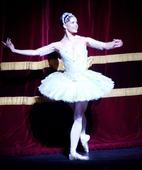 Darcey Bussell during a curtain call, after a performance of Theme and VariationsTheme and Variations